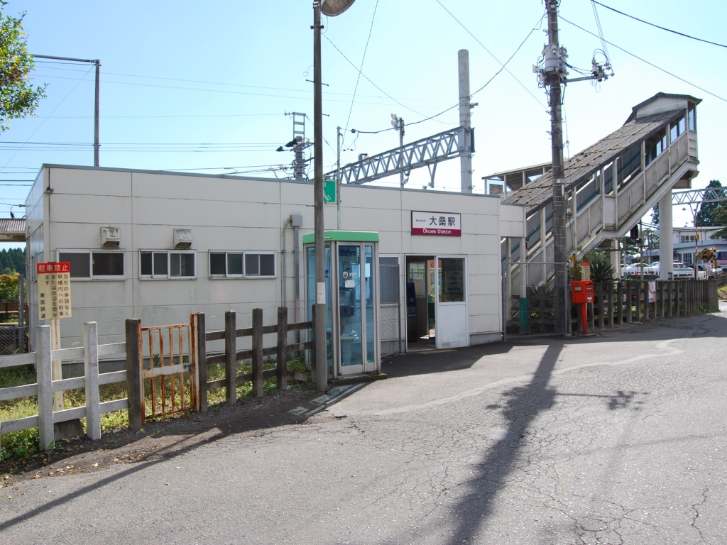 The station entrance on the west side of Ōkuwa Station on the Tobu Kinugawa Line in Tochigi Prefecture, Japan